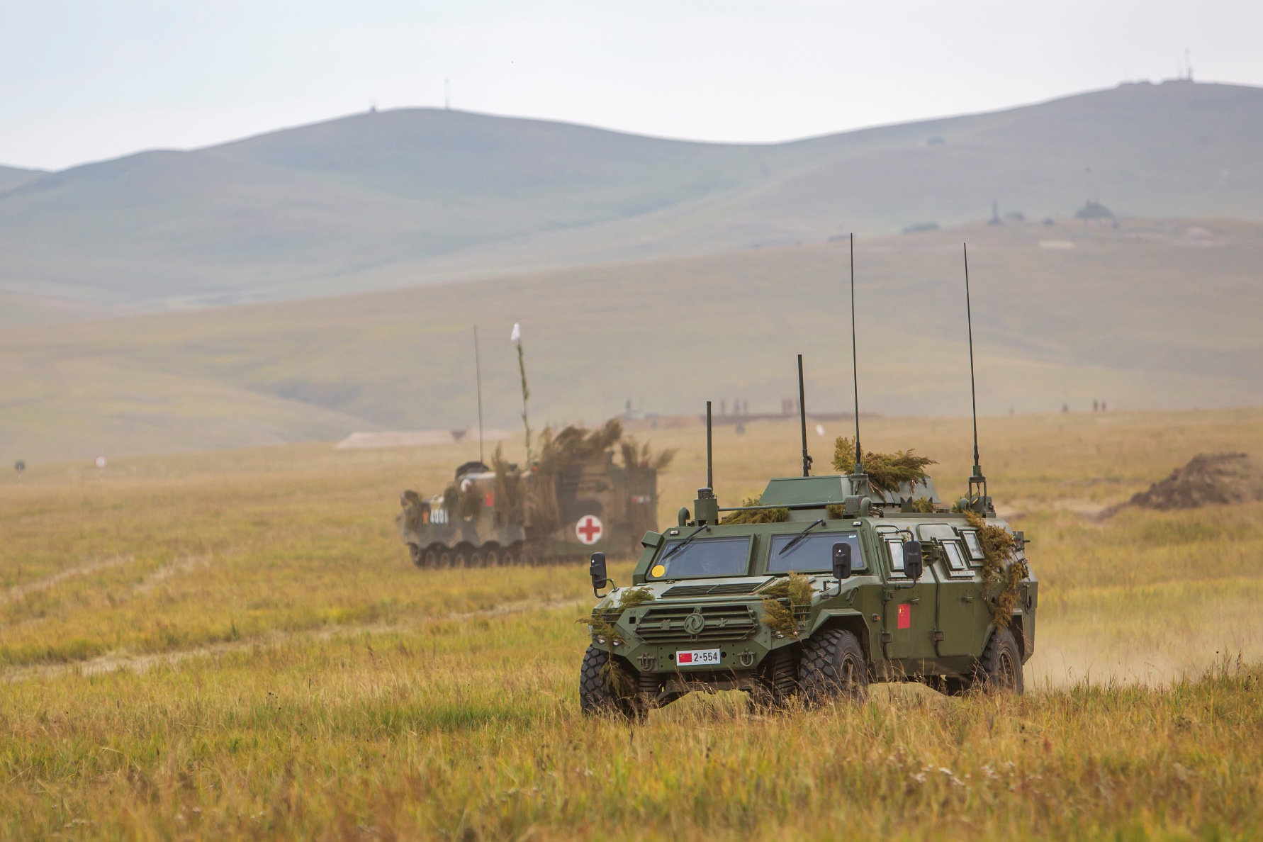 Chinese Dongfeng CSK131 armoured vehicle 4x4. Vostok 2018 Russian military exercises.